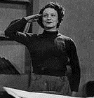 sarita Watle-actriz